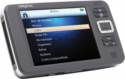 Creative ZEN Vision